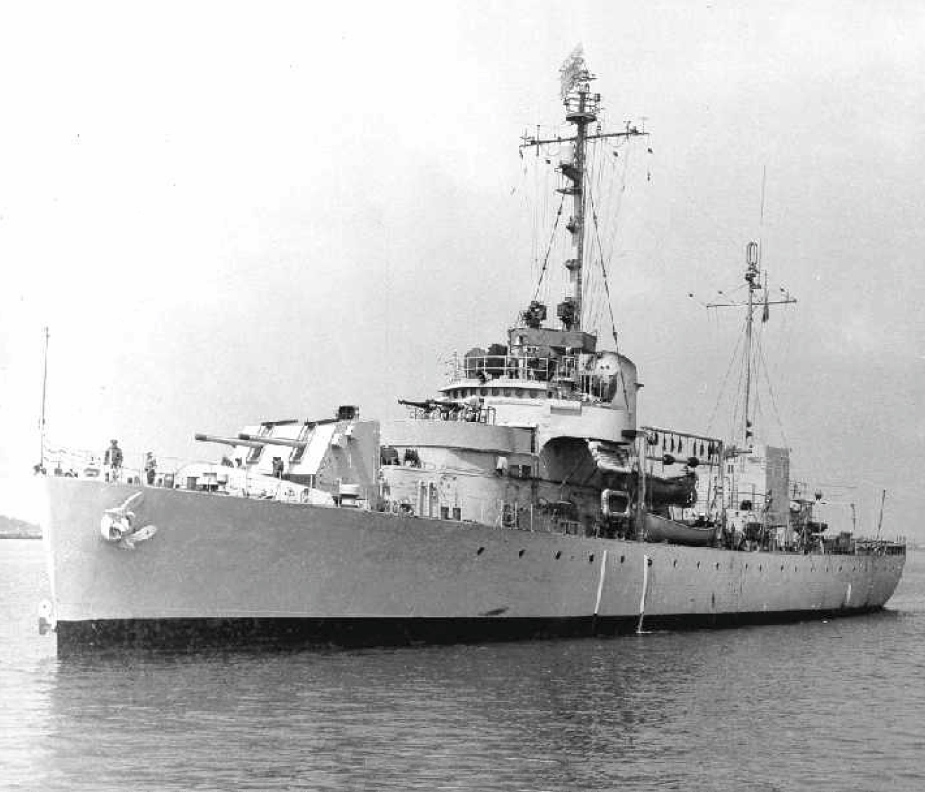 The U.S. Coast Guard cutter USCGC Owasco (WPG-39) off Hawkins Point, Maryland (USA), on 5 May 1946.